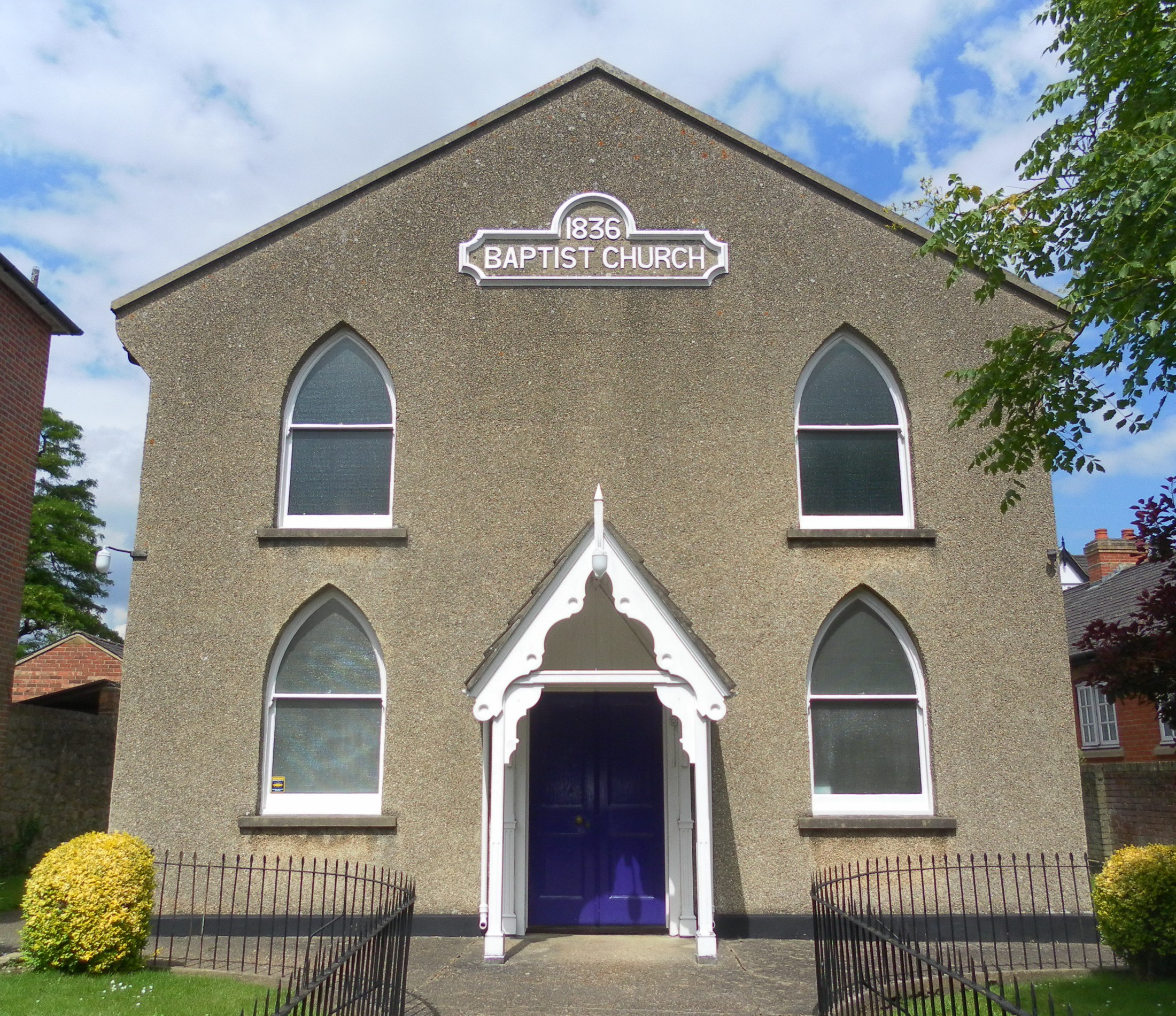 West Malling Free Church, Swan Street, West Malling, Borough of Tonbridge and Malling, Kent, England. An early 19th-century Baptist chapel in the centre of West Malling village. Listed at Grade II by English Heritage (NHLE Code 1291591)